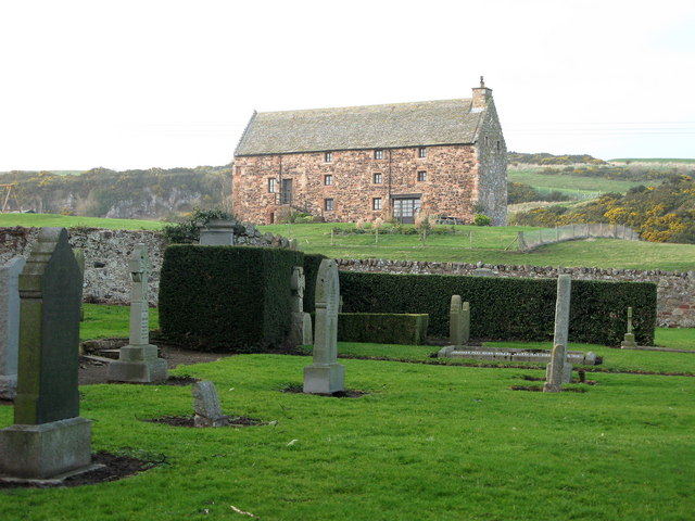 Tithe Barn, Whitekirk, East Lothian, Scotland. After miracles of healing were being performed at a nearby well in the 13th century, the nearby church of St Mary's was placed under the protection of James I who built hostels for the growing number of pilgrims. James IV regularly made the journey to Whitekirk, but his son James V gave the site to the Sinclair family who in around 1540 built a rare example in Scotland of a 3-storey tithe barn with stone from the former pilgrims' hostel. In the 19th century the holy well dried up following agricultural drainage.